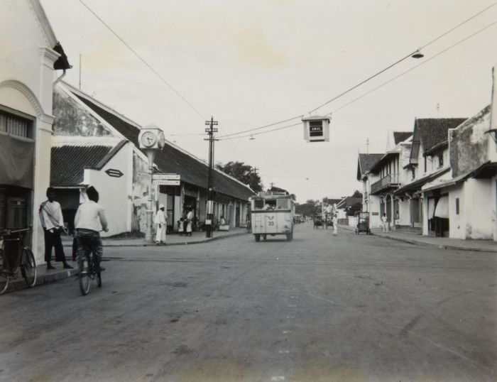 Traffic light above a crossing at the "Hoofdstraat"